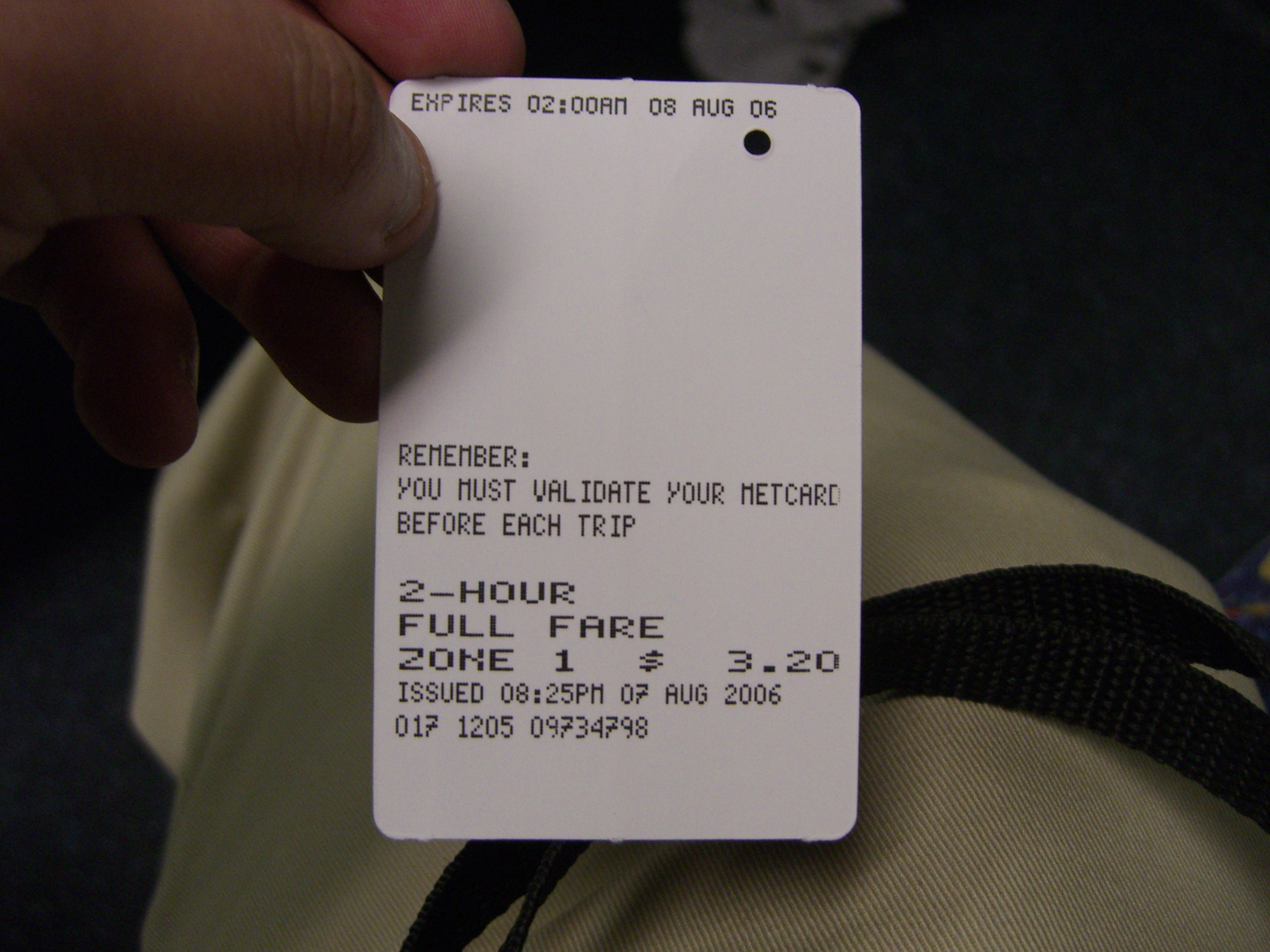 This particular one lasts for 2 hours (it says expires 02:00AM even it says issued 08:25PM, maybe it's because it was off-peak) This pass actually allows me to get on train, bus, or trams. I think this works pretty well with primary mode of transportation to get around town, and the office.